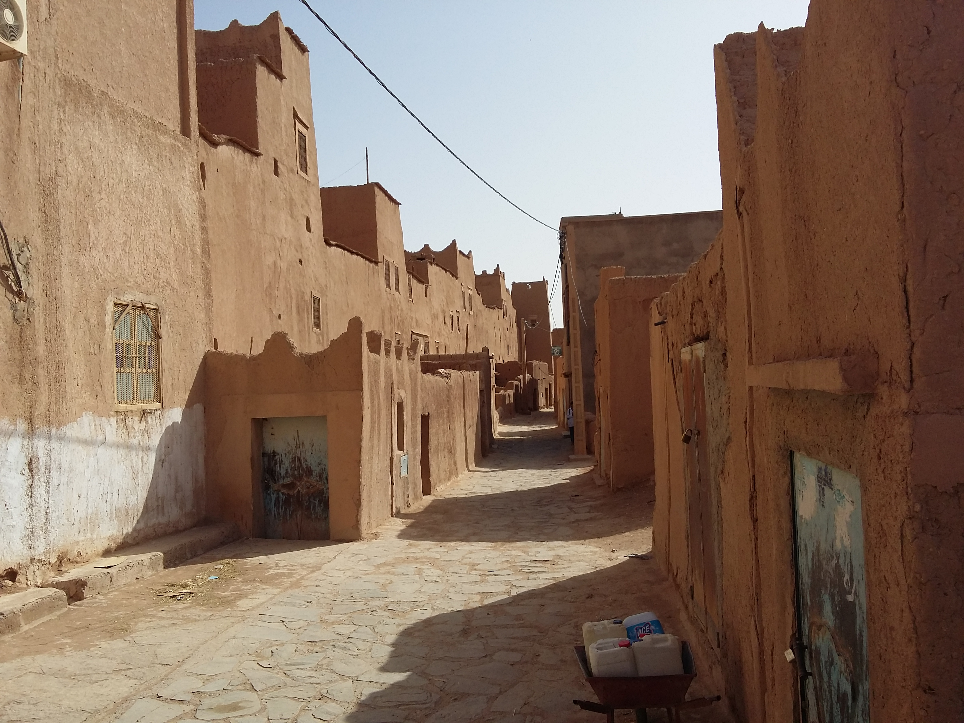 On the left you see the front of the ksour El Khorbat Oujdid